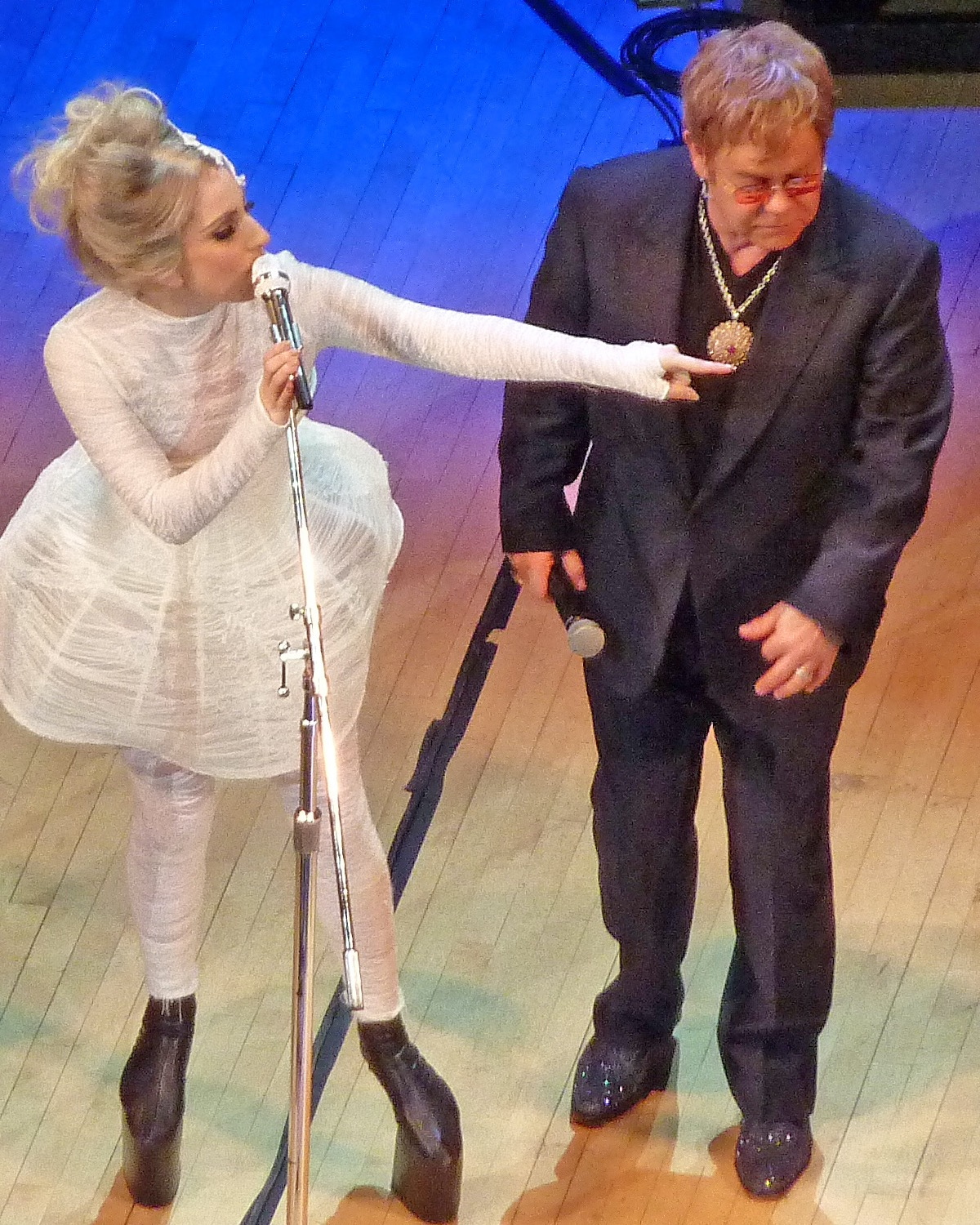 Lady Gaga and Elton John at Carnegie Hall, New York City, in 2010